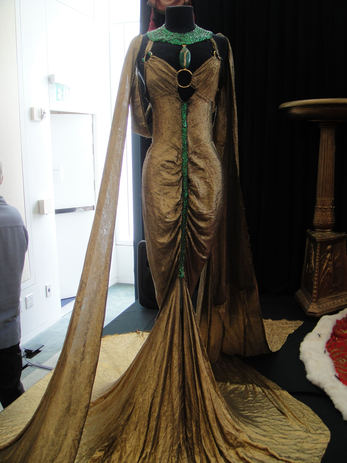 Claudette Colbert gold-lame and emerald royal boudoir gown from the film Cleopatra (1934) directed by Cecil B. DeMille at the Debbie Reynolds Auction Breaks Up Historic Hollywood Collection (The Paley Center for Media in Beverly Hills, Los Angeles, CA, USA).